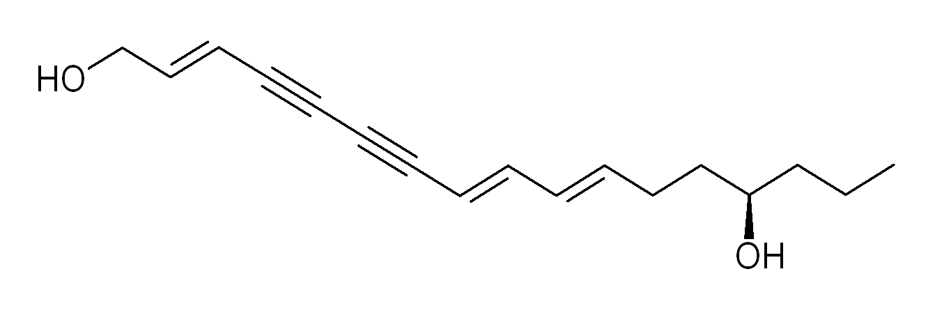 Chemical structure of Oenanthotoxin